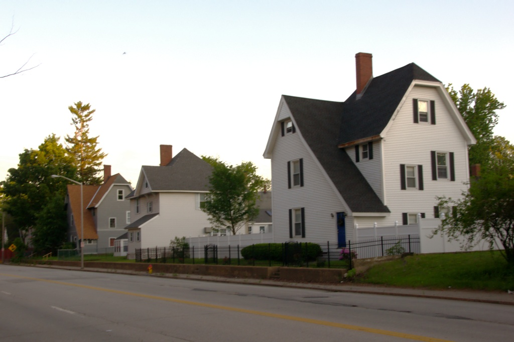 A row of former mill employee houses on Gregory Street in the District E historic mill housing district of Manchester, New Hampshire.